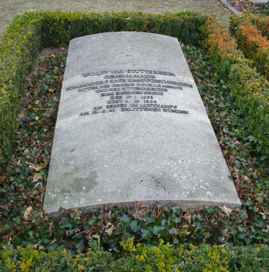 Grave of Wolff von Sutterheim